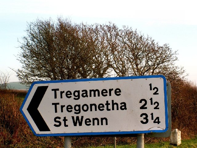 Leaving St. Columb. Signpost at a junction on the old road from St. Columb to Wadebridge, a mile from St. Columb.